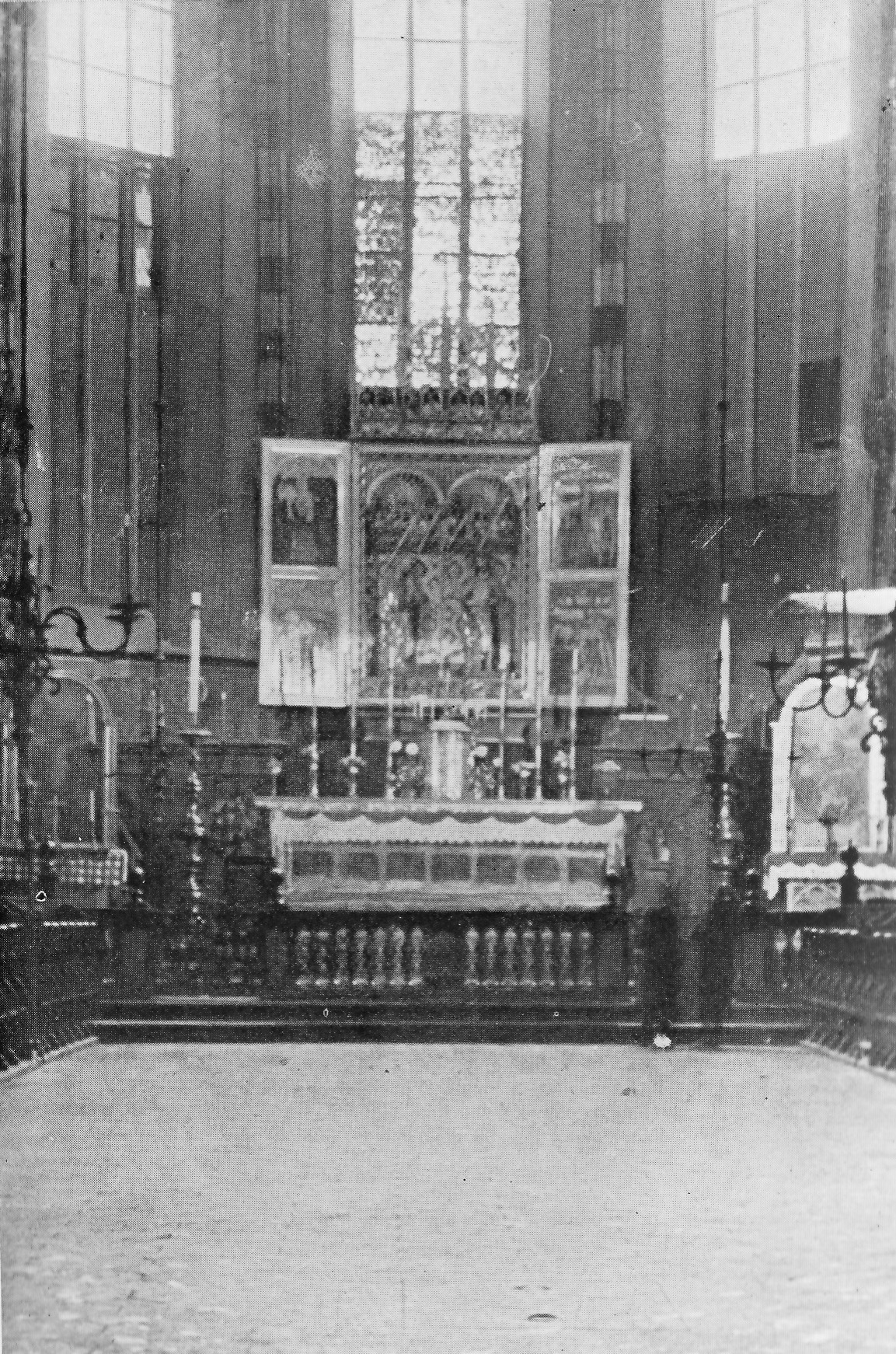 Inside of St. Mary's Basilica in Kraków without Altar of Veit Stoss.